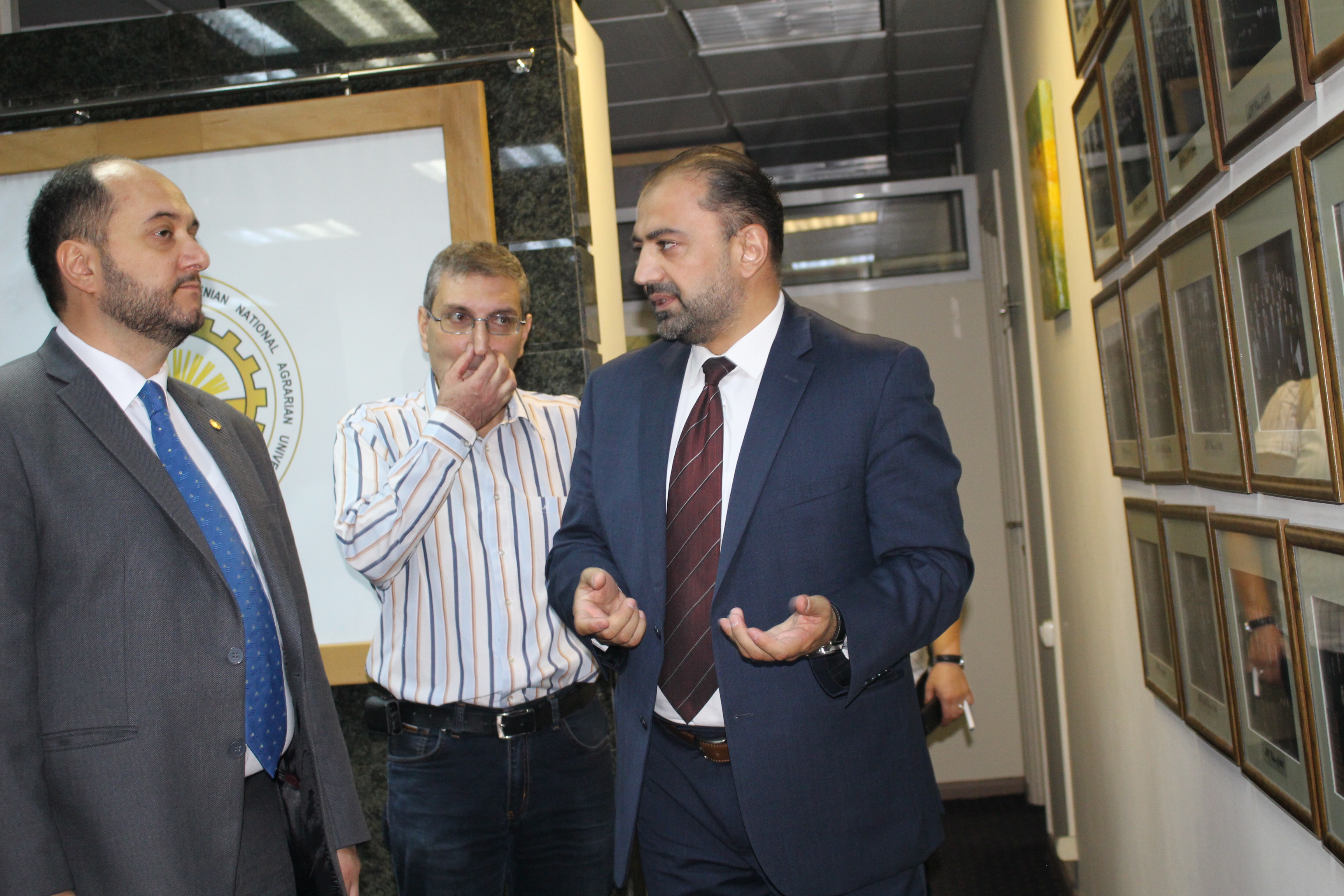 RA Minister of Education and Science Arayik Harutyunyan at the International Center for Agribusiness Research and Education (ICARE).